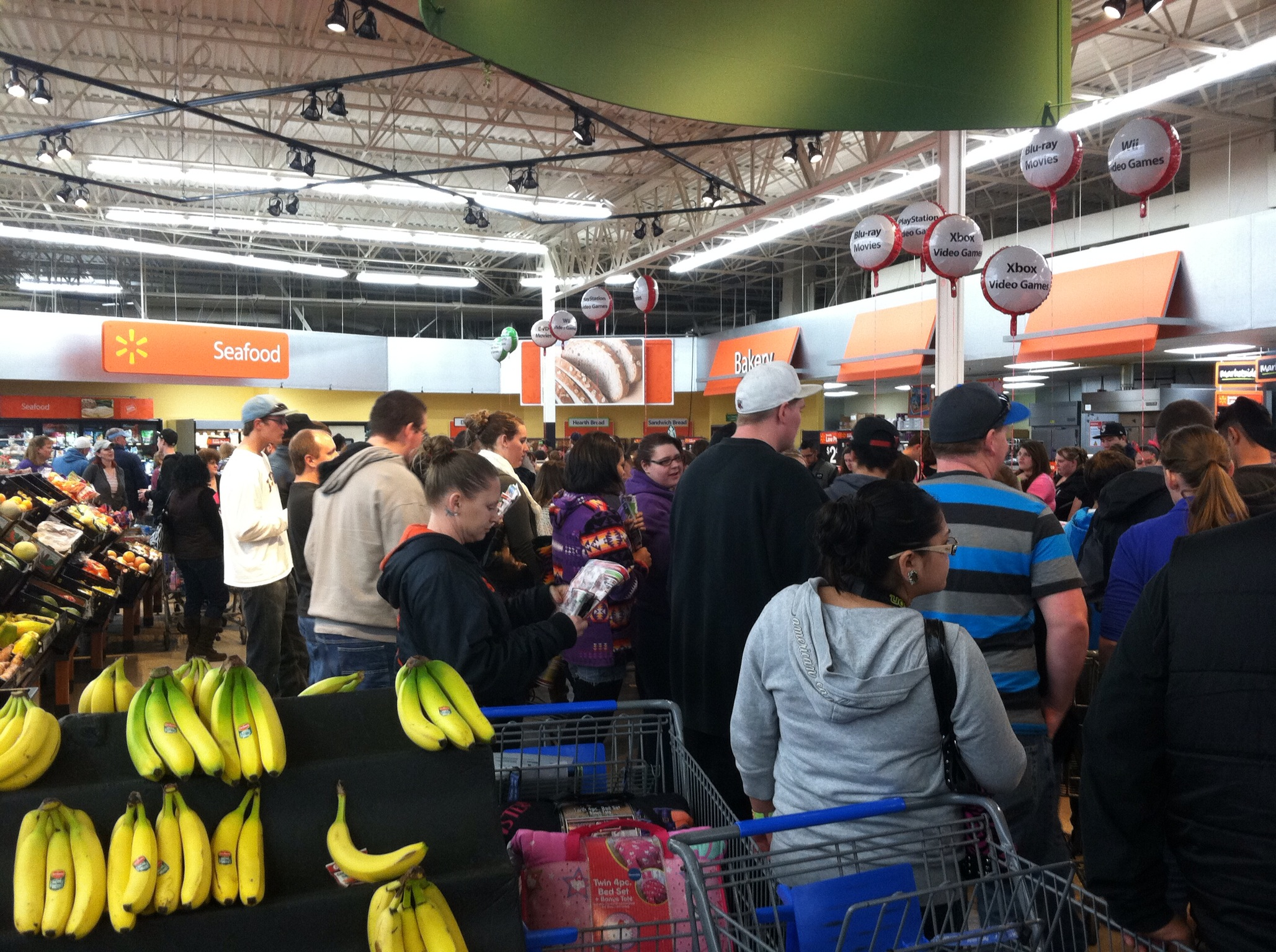 Thanksgiving Thursday sales at Walmart, klamath falls, OR. Video games and movies section.